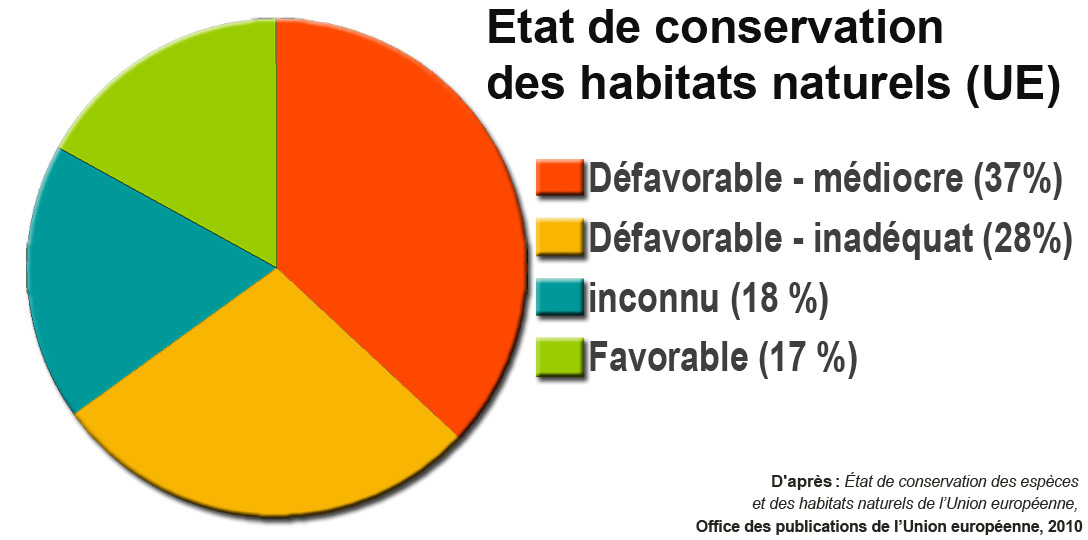 Habitats evaluation in the European Union 2010